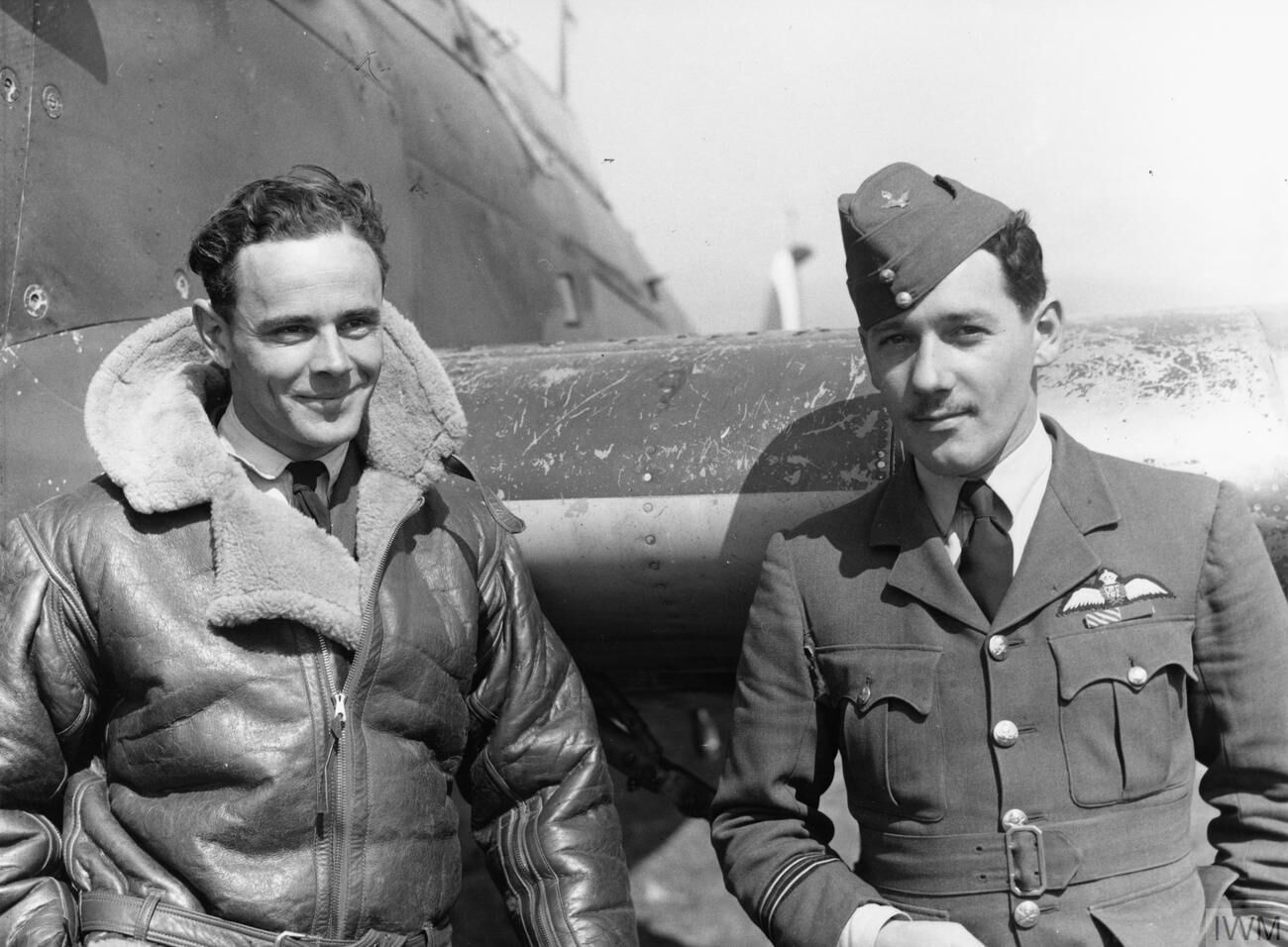 IWM caption : Squadron Leader Marmaduke Thomas St John "Pat" Pattle, Officer Commanding No. 33 Squadron RAF, and the Squadron Adjutant, Flight Lieutenant George Rumsey, standing by a Hawker Hurricane at Larissa, Thessaly, Greece.